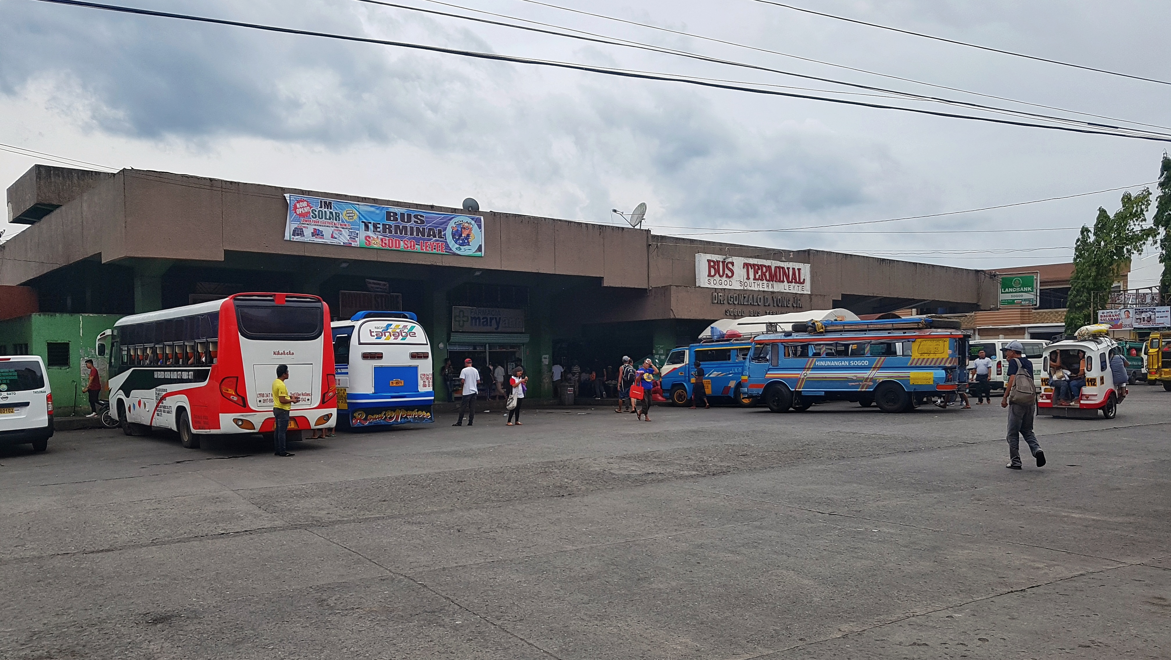 Bus Terminal in Sogod, Southern Leyte that picks up and drop off passengers. Located at Barangay Zone III, Sogod.